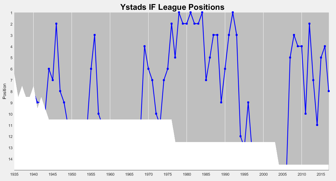 Ystads IF positions in the top division. The grey area denotes the number of teams in the top division. For split seasons, the autumn positions are shown when the team did not play in the top division in the spring season.